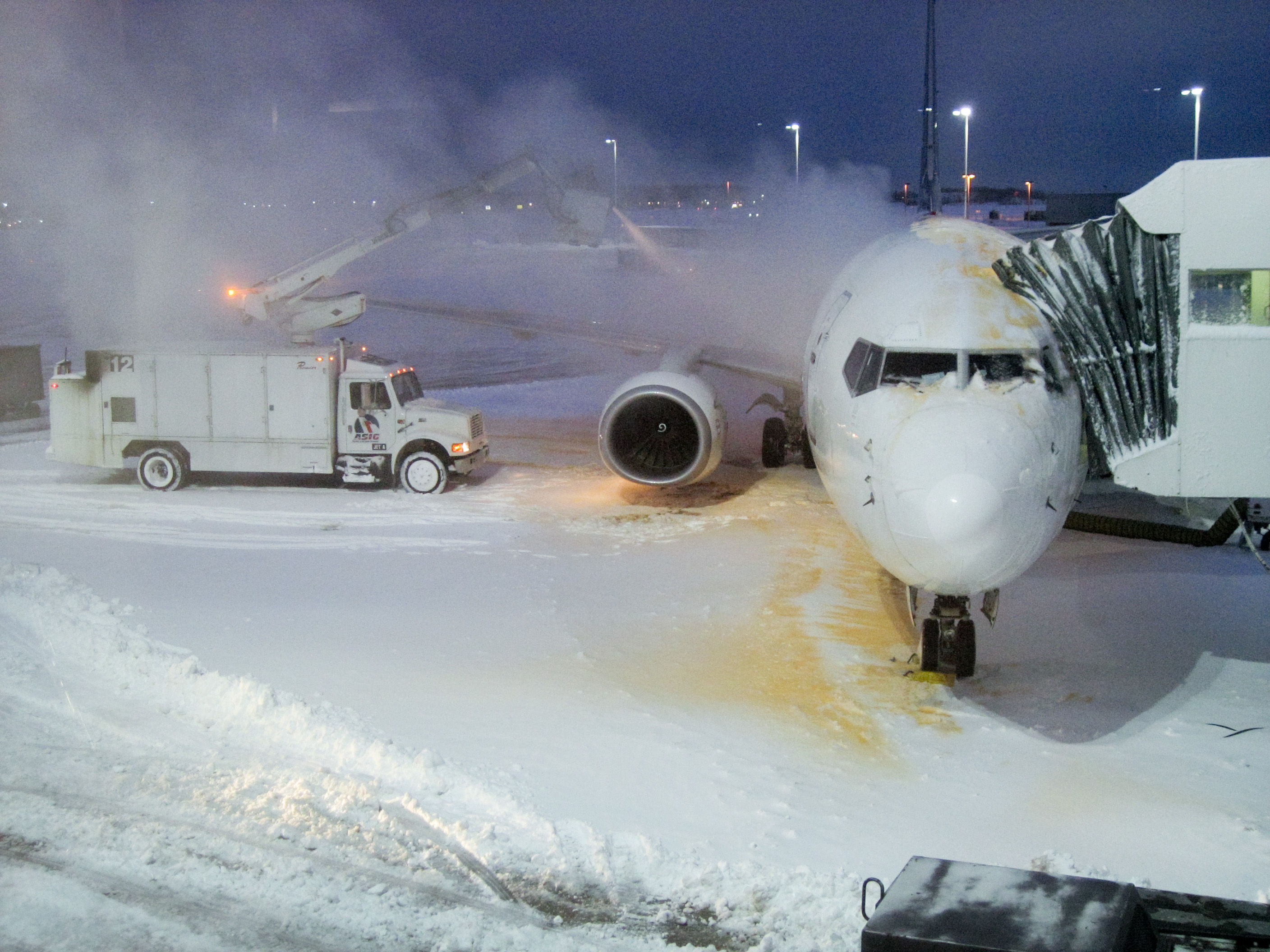 A Boeing 737 airliner being de-iced at the gate at Milwaukee International Airport